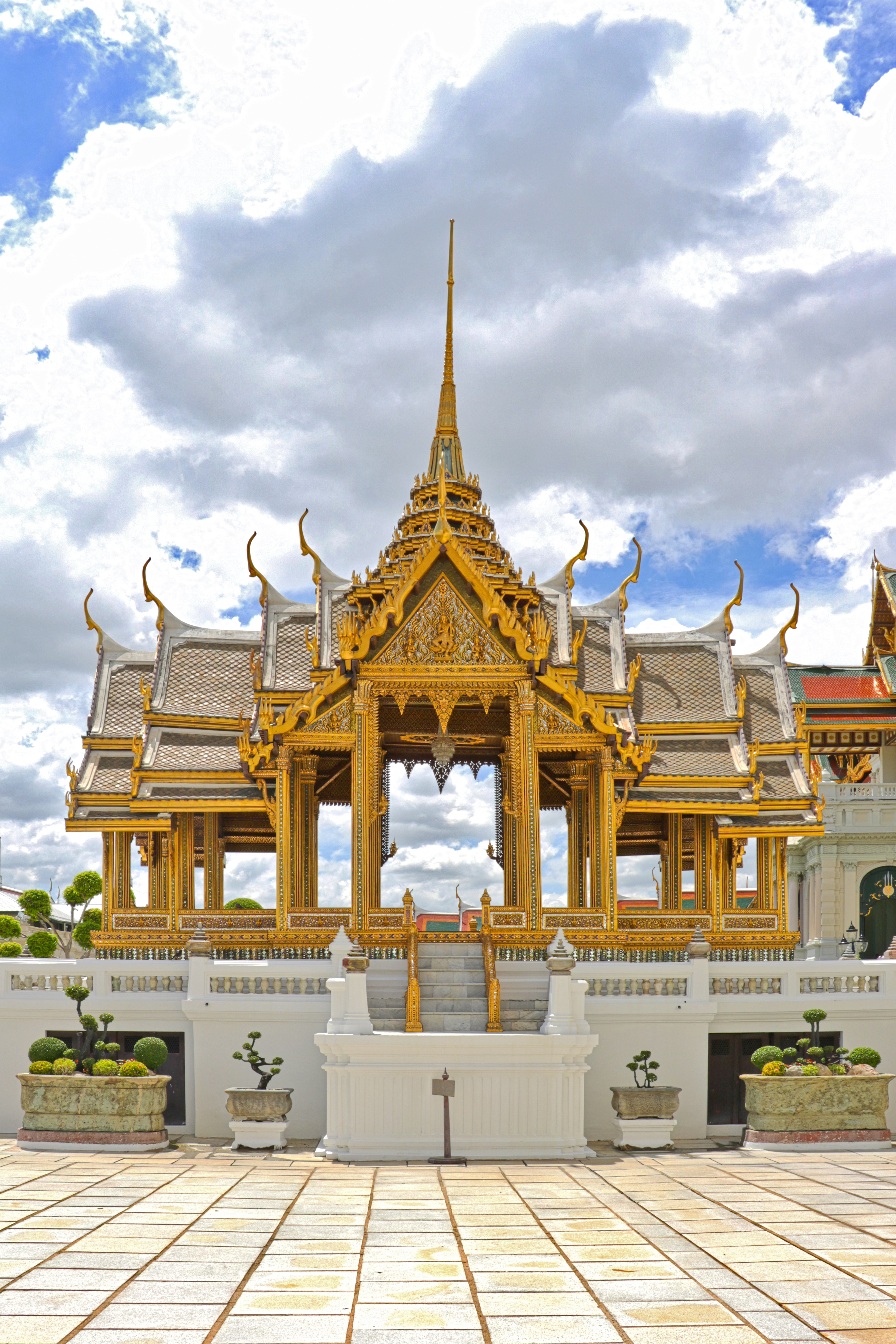 The Phra Thinang Aphorn Phimok Prasat